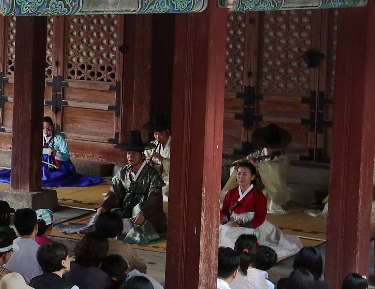 Morning of ChanggyeonggungThe annual early-morning gugak concert initiated by the National Gugak CenterChanggyeonggung, Seoul-Related Articles-Early birds flock to palace on Saturday morning of Culture, Sports and TourismKorean Culture and Information ( HAN------------------------------------이른 아침 고궁에서 국악에 빠지다국립국악원 고궁 아침 국악 공연 ‘창경궁의 아침’‘이른 아침 고궁에서 국악에 빠지다’ 서울문화체육관광부해외문화홍보원코리아넷전한